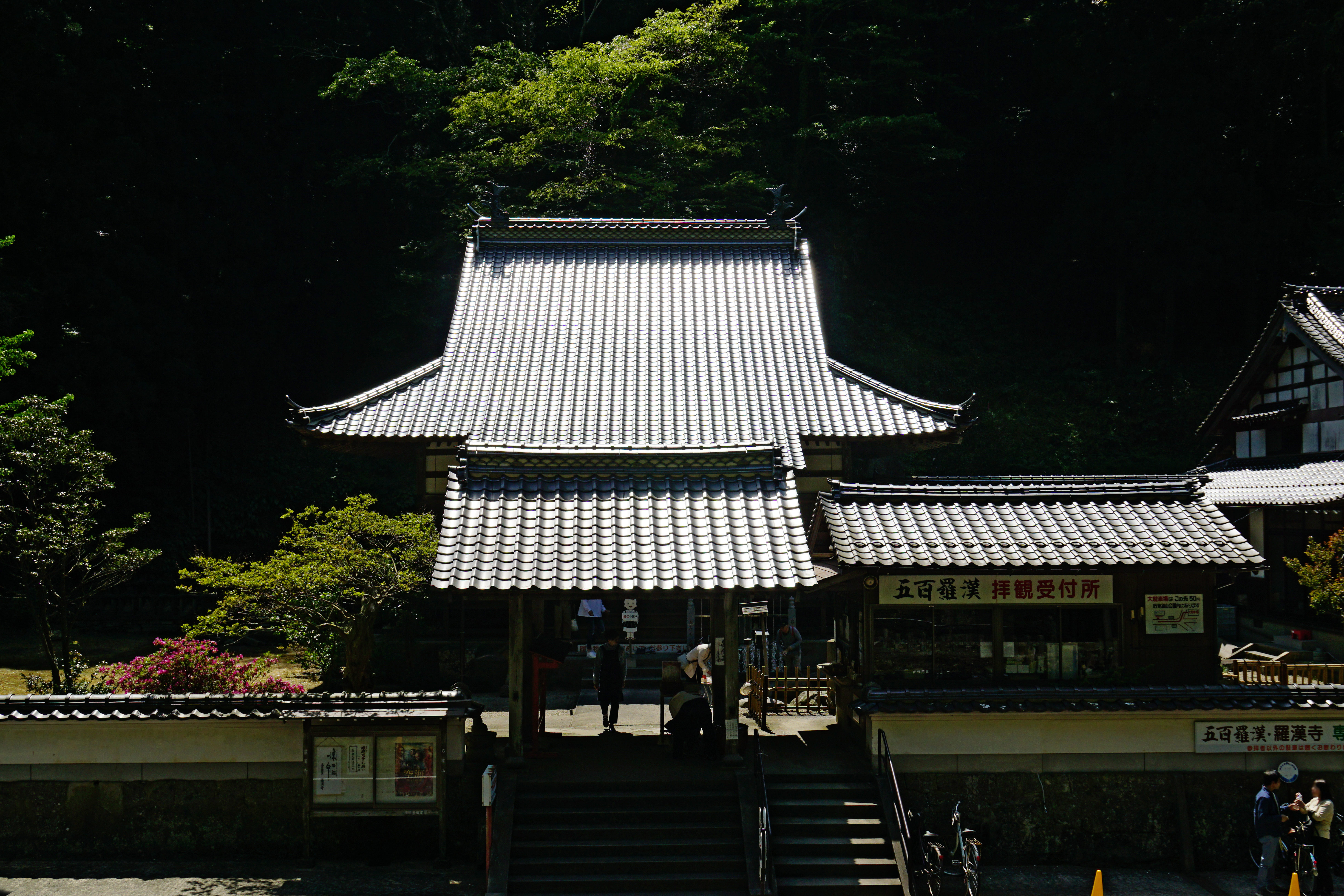 Rakan-ji in Ōda, Shimane prefecture, Japan. It was registered as part of the UNESCO World Heritage Site "Iwami Ginzan Silver Mine and its Cultural Landscape".